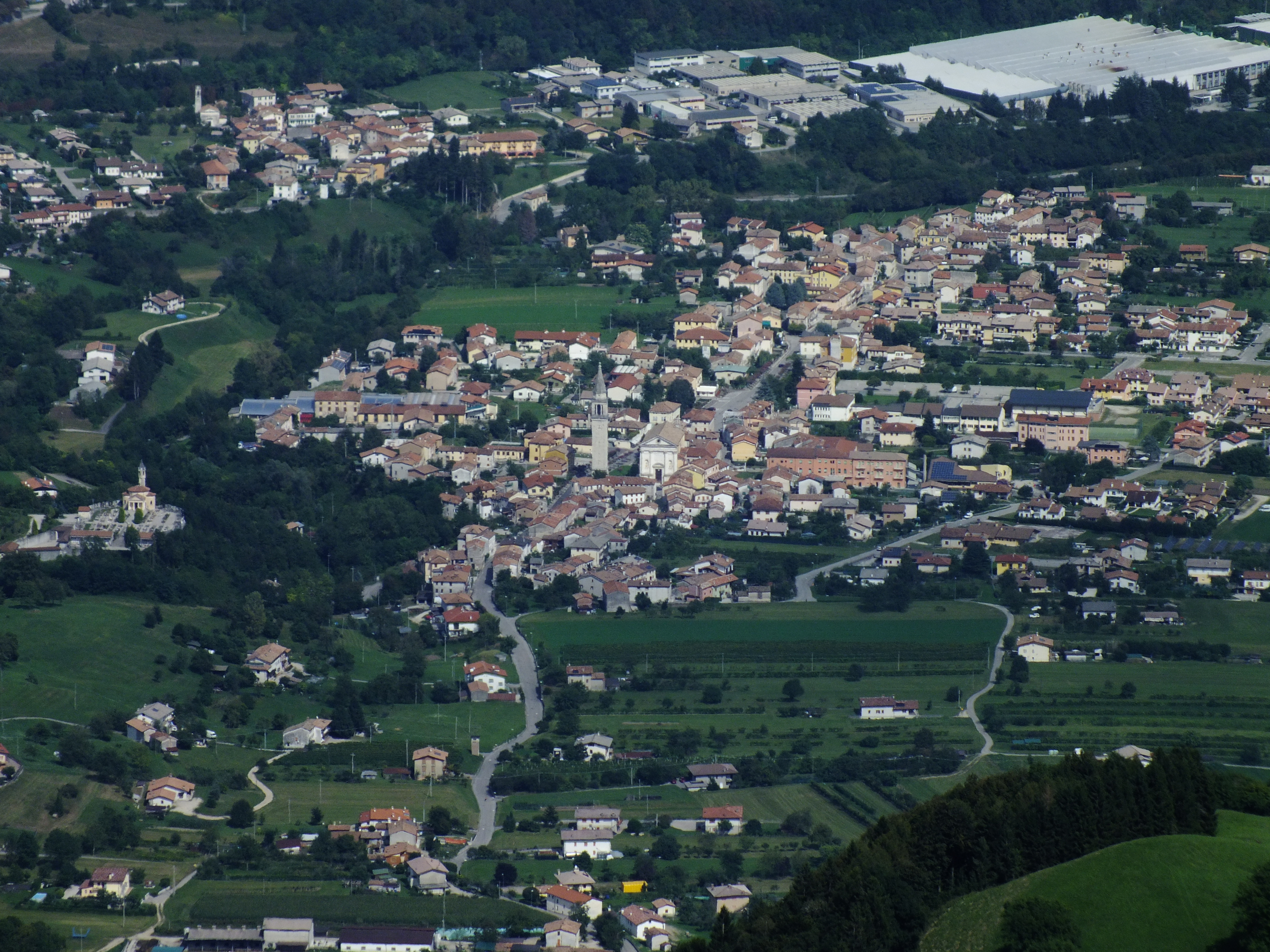 Viev of the town of Alano di Piave, Province of Belluno, Italy, from Monte Tomba.